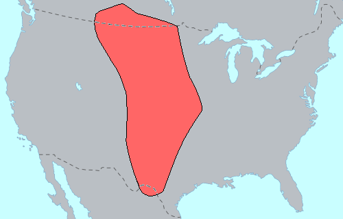 Range of Plains Indians at the time of first European contact.